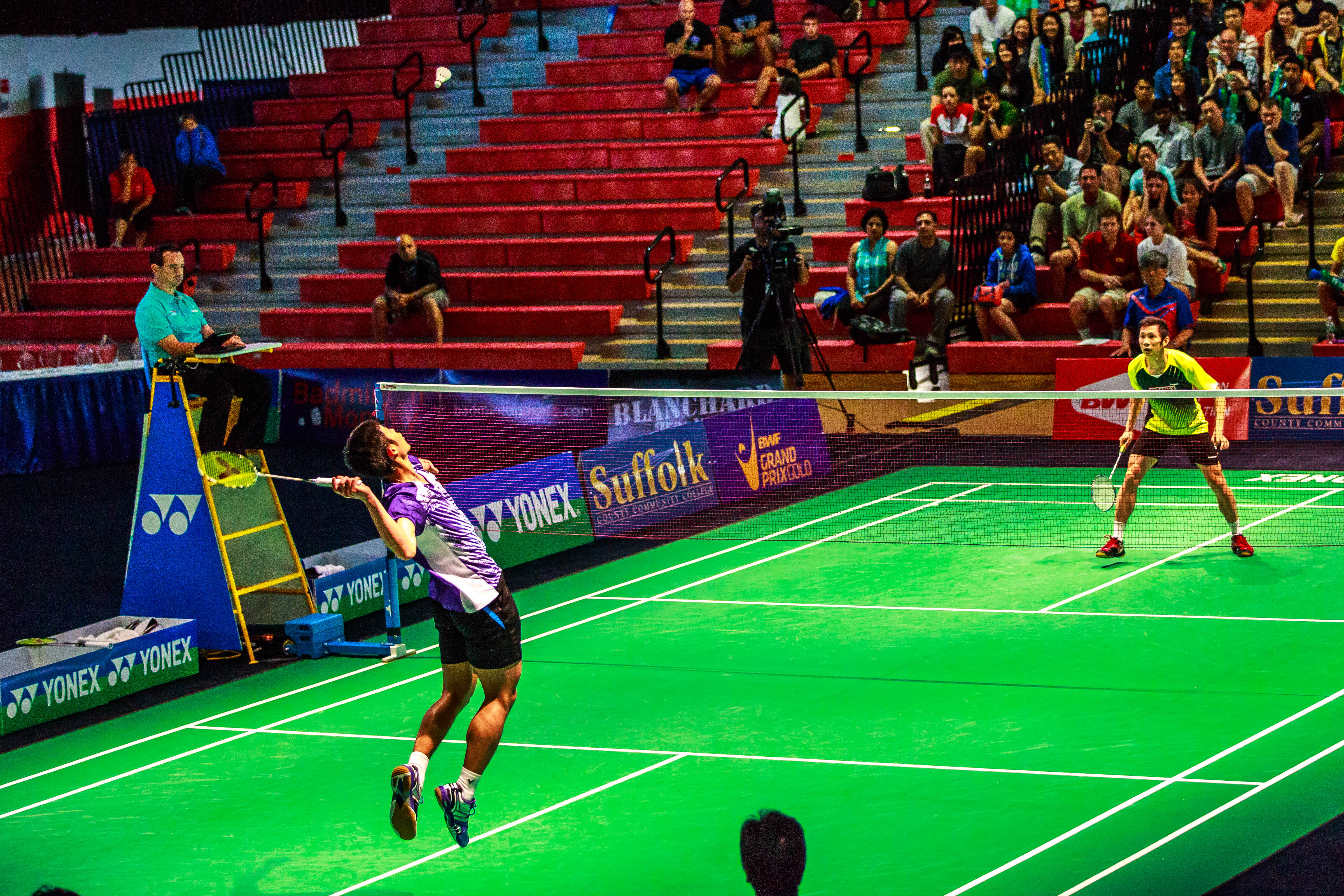 MS Final...Tien Minh Nguyen (VIE) def Tien Chen Chou (TPE) 19, 14-21, 19...